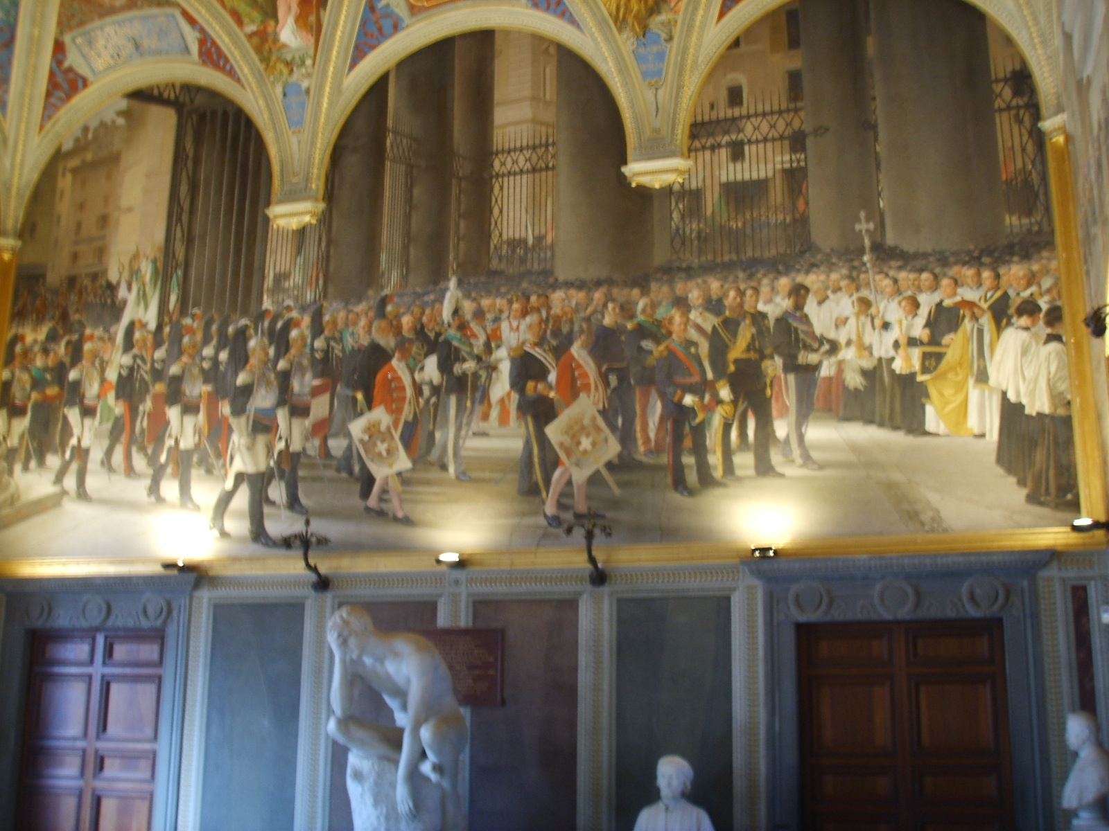 Palazzo Pubblico, Museo Civico, Sala del Risorgimento, in Siena, Italy. Fresco by Cesare Maccari, The Funeral of Victor Emmanuel II of Italy, 1887.